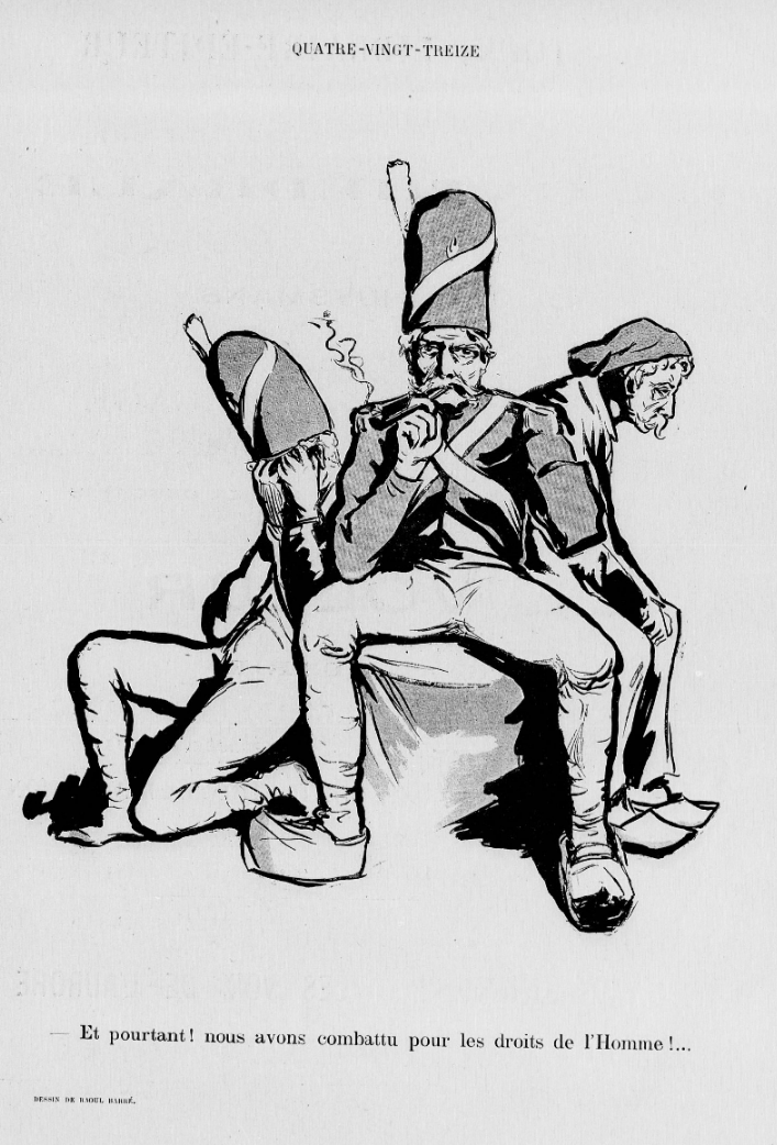 Quatre-vingt-treize : Et pourtant ! nous avons combattu pour les droits de l'Homme ! : first sketch of Raoul Barré published in Le Sifflet, Paris, March 3 1898.